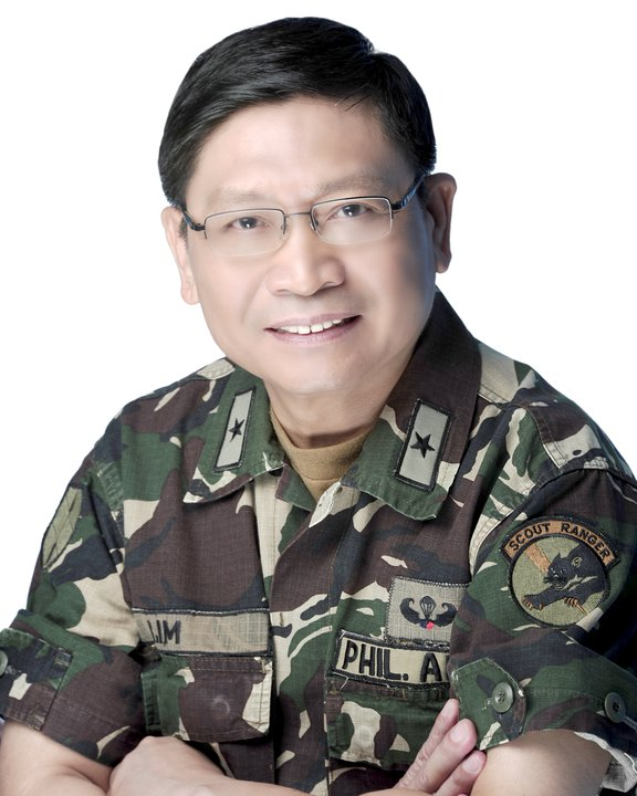 BGen Danilo Lim AFP